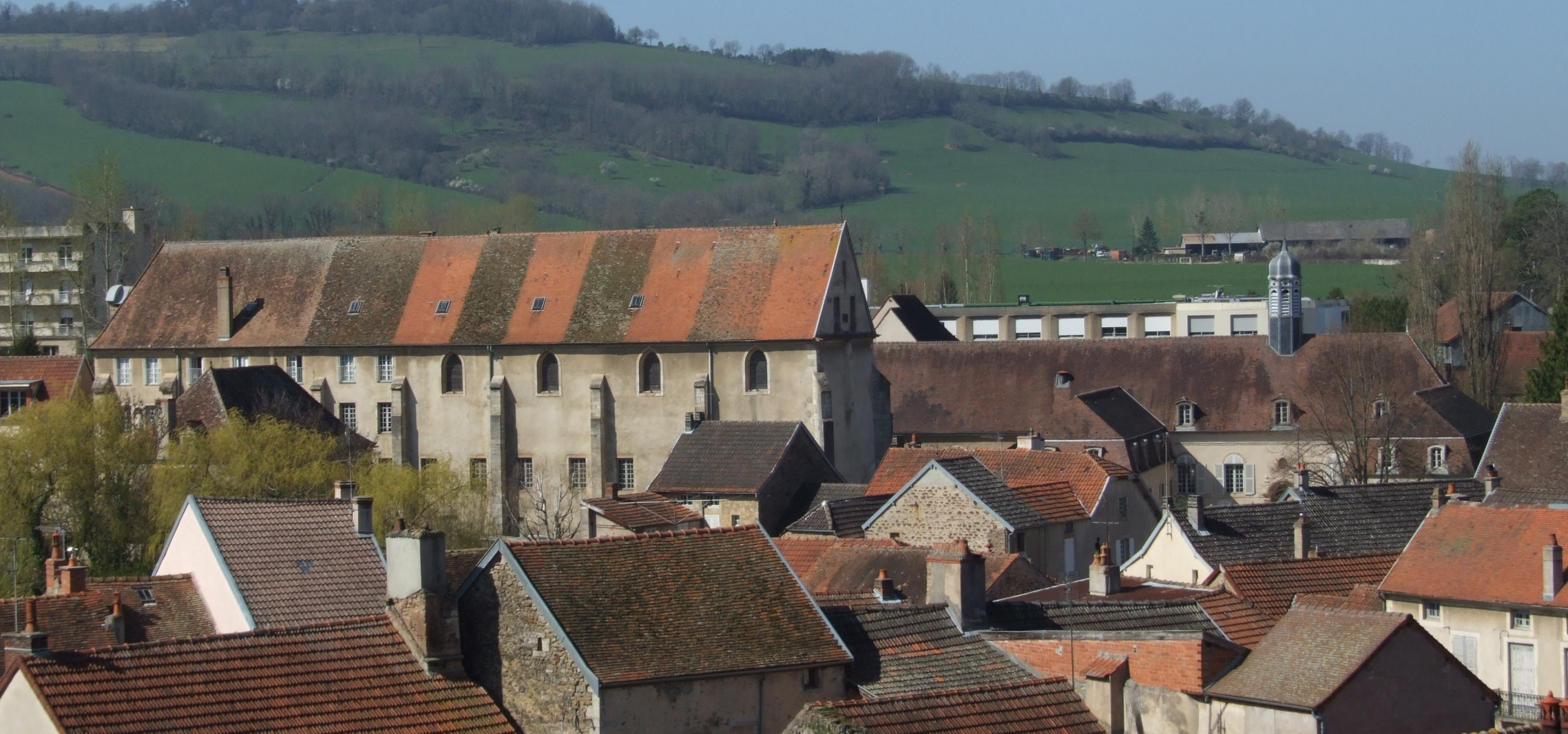 Vitteaux, Burgundy, FRANCE